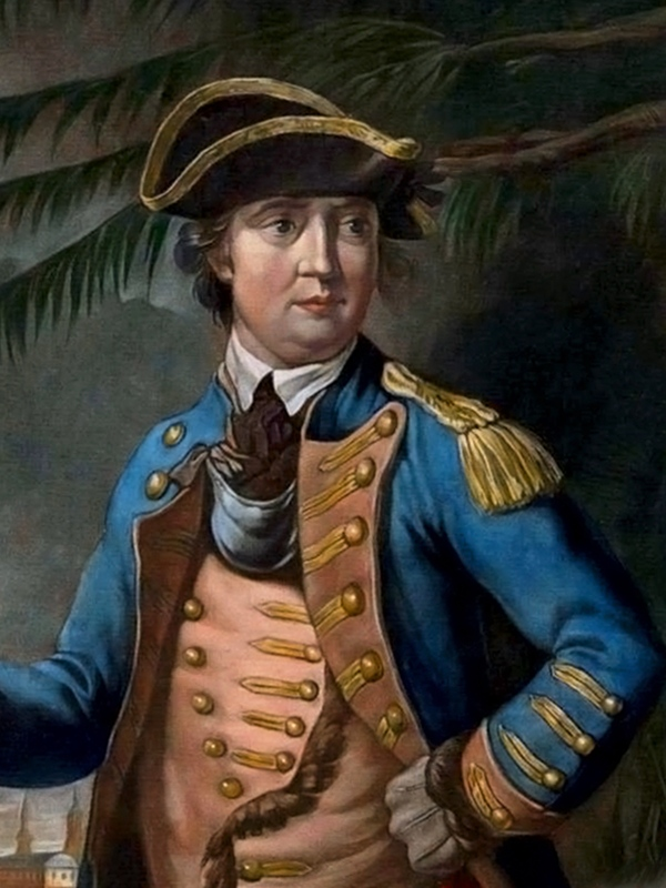 Detail of a color mezzotint of American Revolutionary War General Benedict Arnold, captioned as follows: Colonel Arnold who commanded the Provincial Troops sent against Quebec, through the wilderness of Canada and was wounded in that city, under General Montgomery. London. Published as the Act directs 26 March 1776 by Thos. Hart.